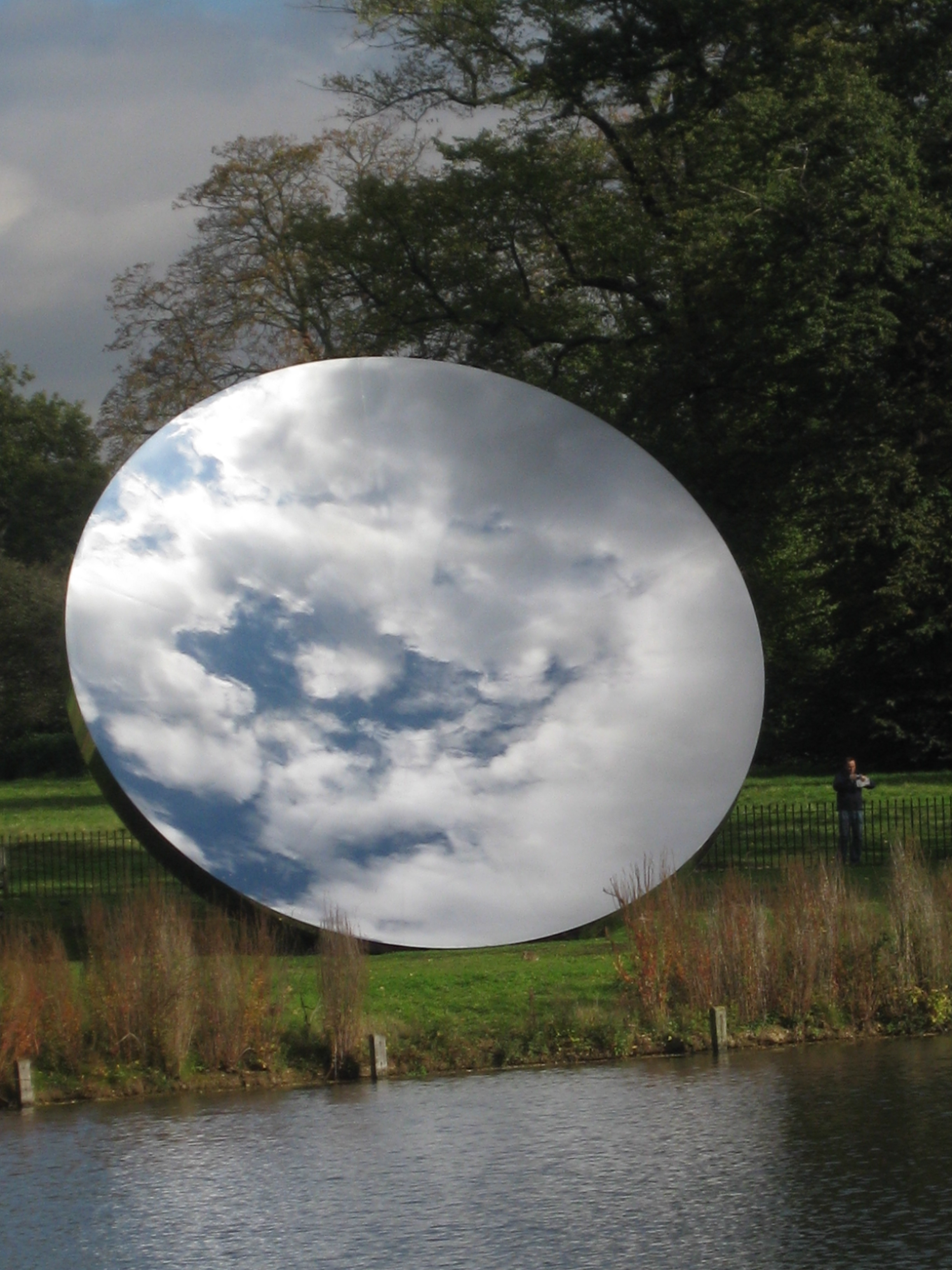 Sky Mirror, Kensington Gardens, London, close up